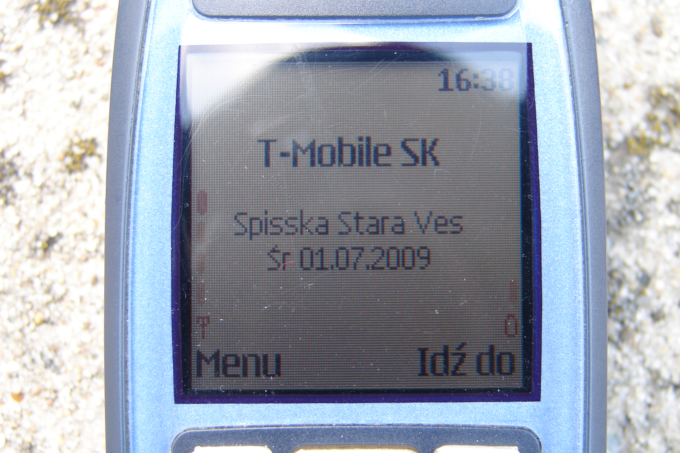 Nokia 3100 - display